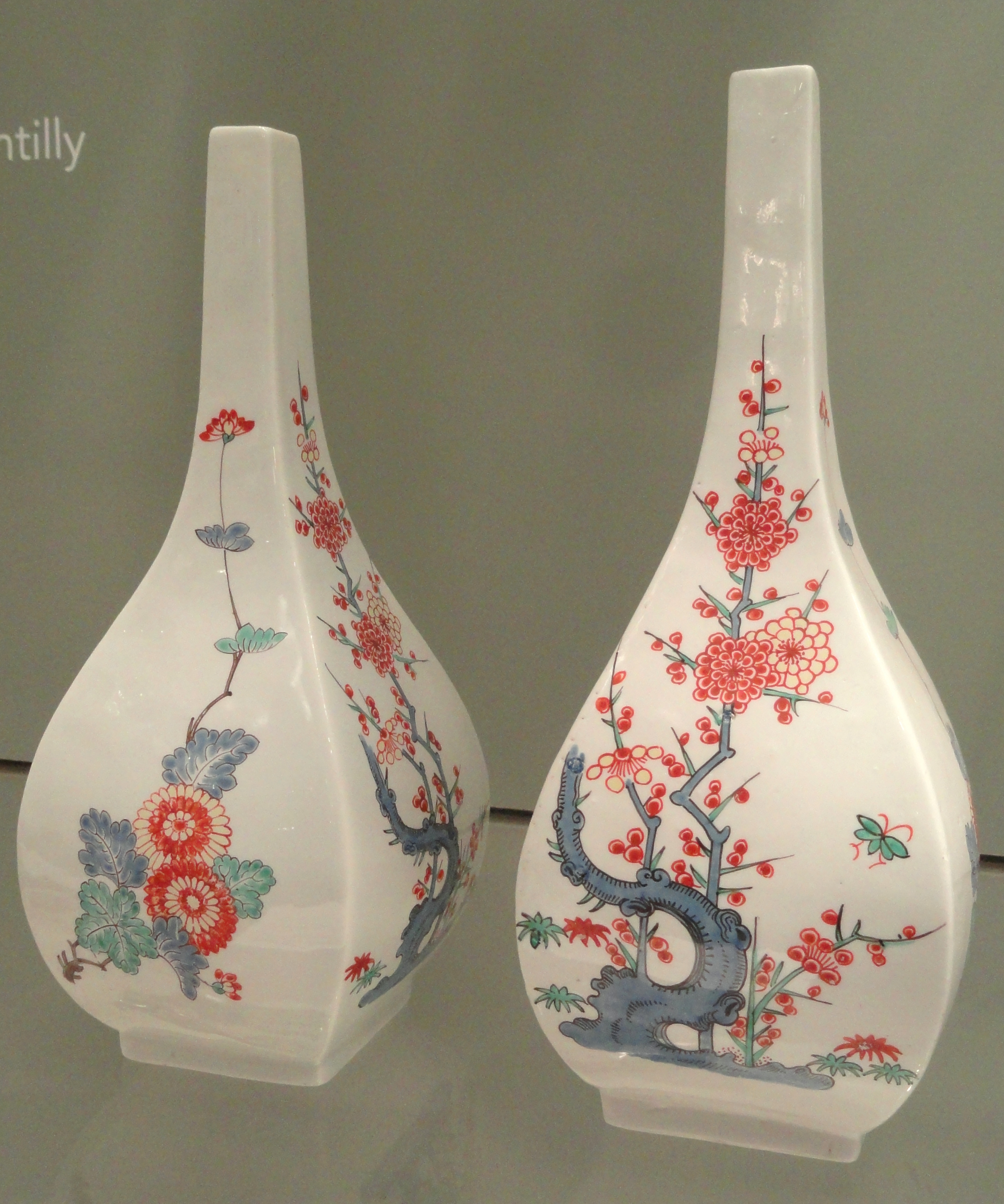 Pair of Square Flasks, c. 1730-1740, Chantilly with Kakiemon style from the Prince de Conde's collection 1740, soft-paste porcelain with overglaze enamels. Exhibit in the Gardiner Museum, Toronto, Ontario, Canada. This artwork is in the public domain because the artist died more than 70 years ago.